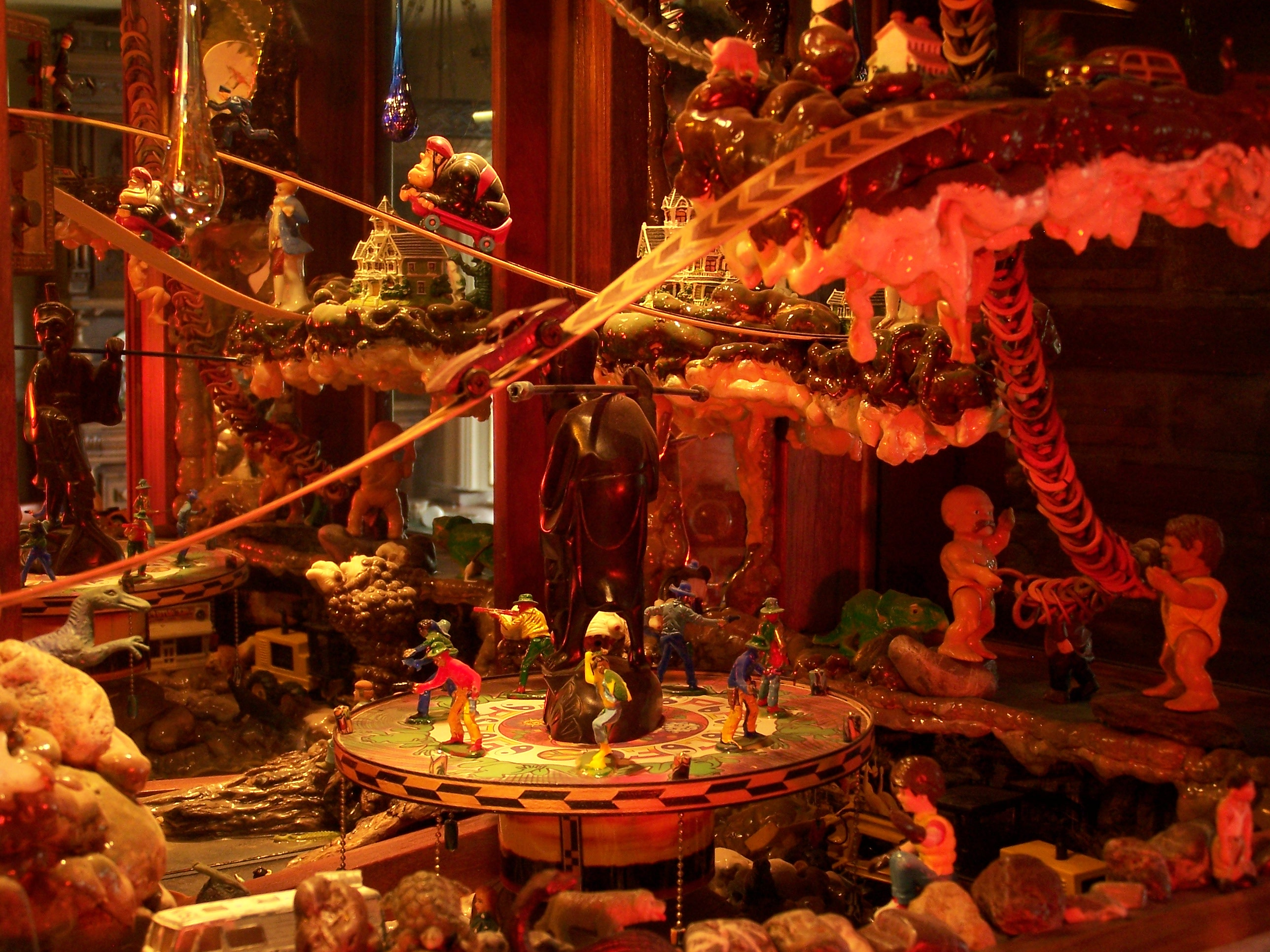 The interior of a sequencing kinetic sculpture by Sal Maccarone